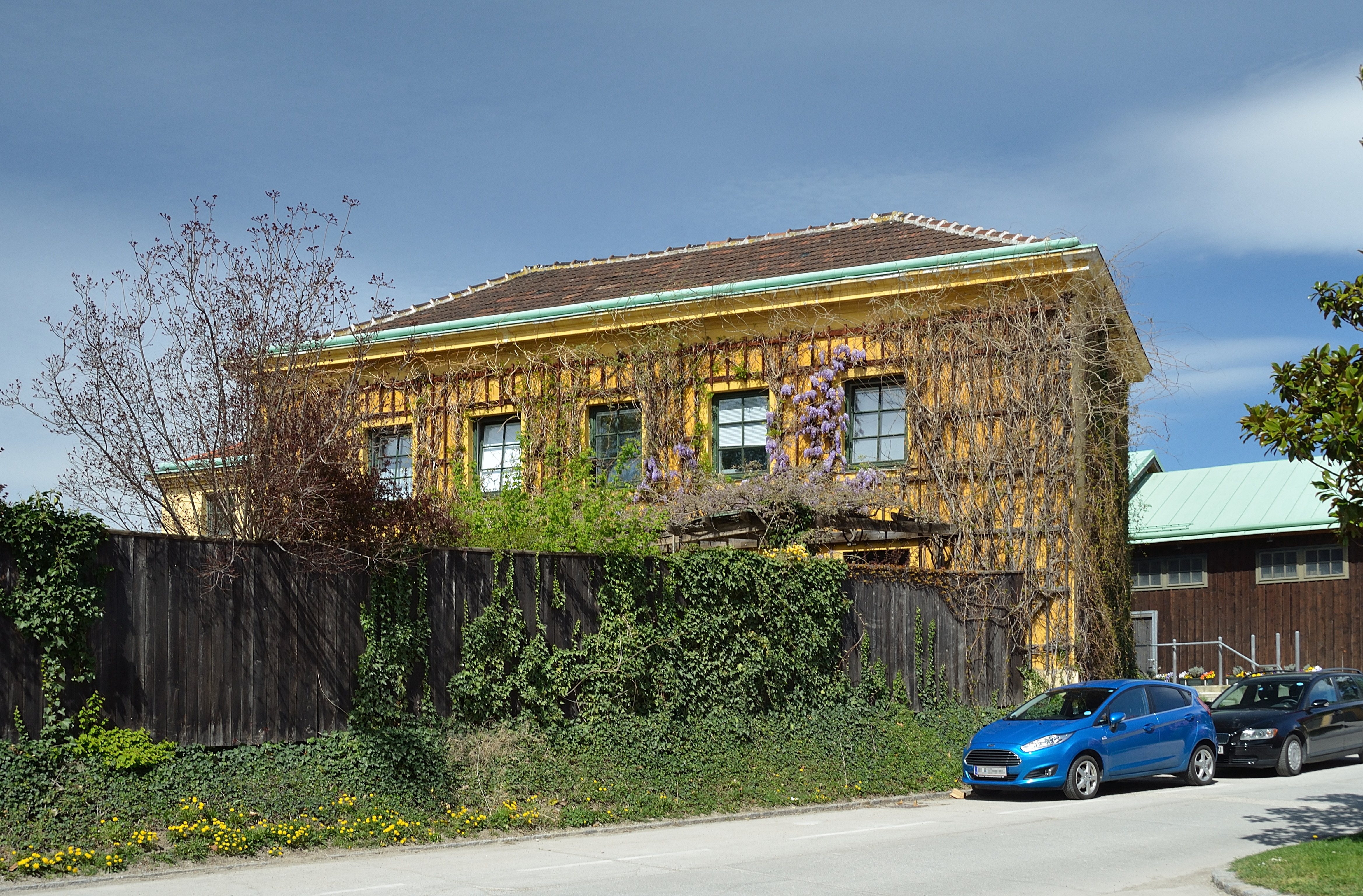 The Bauhofstöckl, a small building to the west of the palace, is the seat of the Bundesgärtendirektion (the administrative building for all gardens owned by the state of Austria) and the center of gardening activities in the gardens of Schönbrunn.